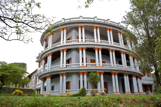 Hill palace horse cart room (back of palace)